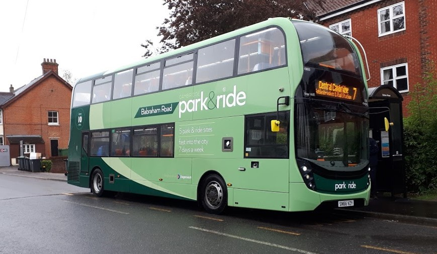 A Cambridge Park and Ride bus operating Citi 7.